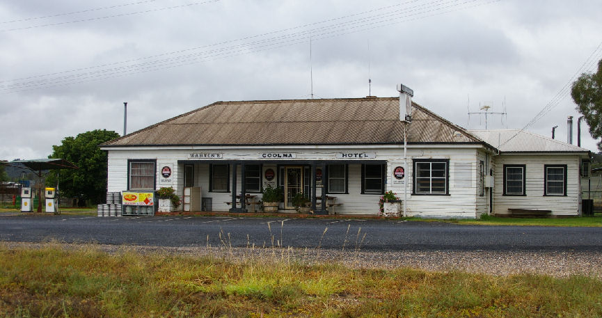 Image of the hotel in Goolma NSW